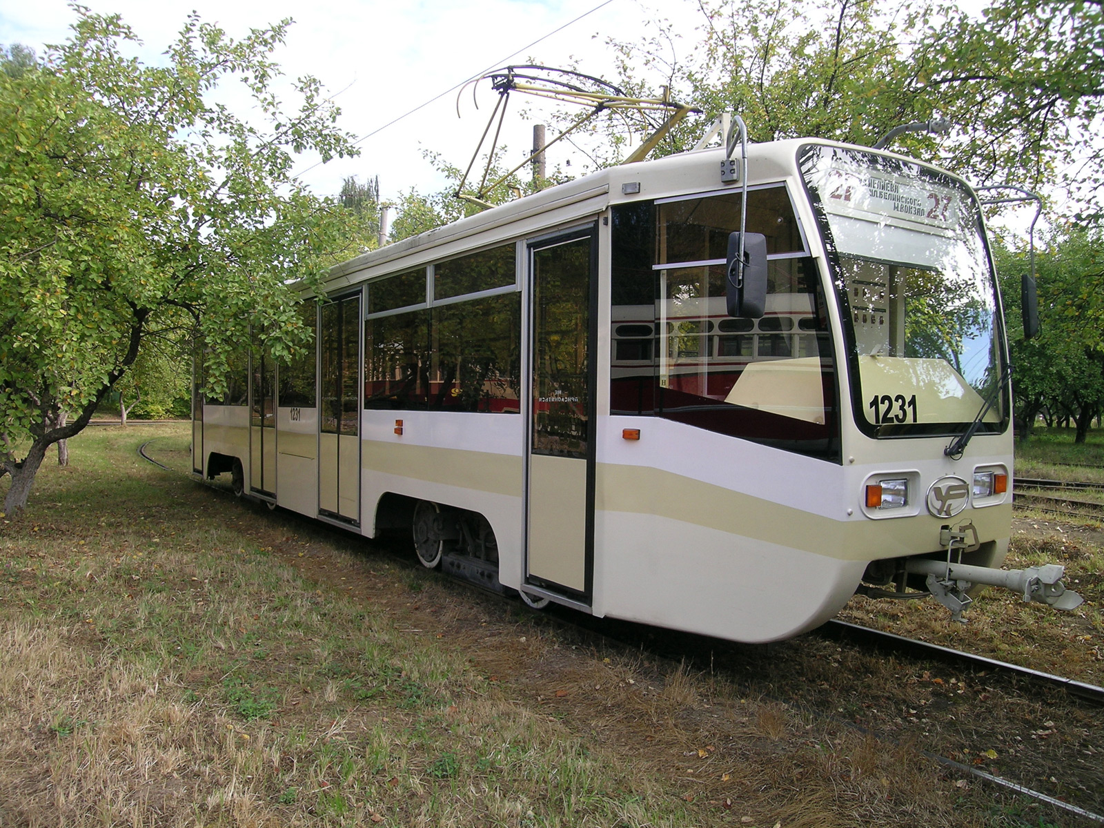 Tram #1231 (71-619K or KTM-19K) in Nizhny Novgorod, Depot #1.